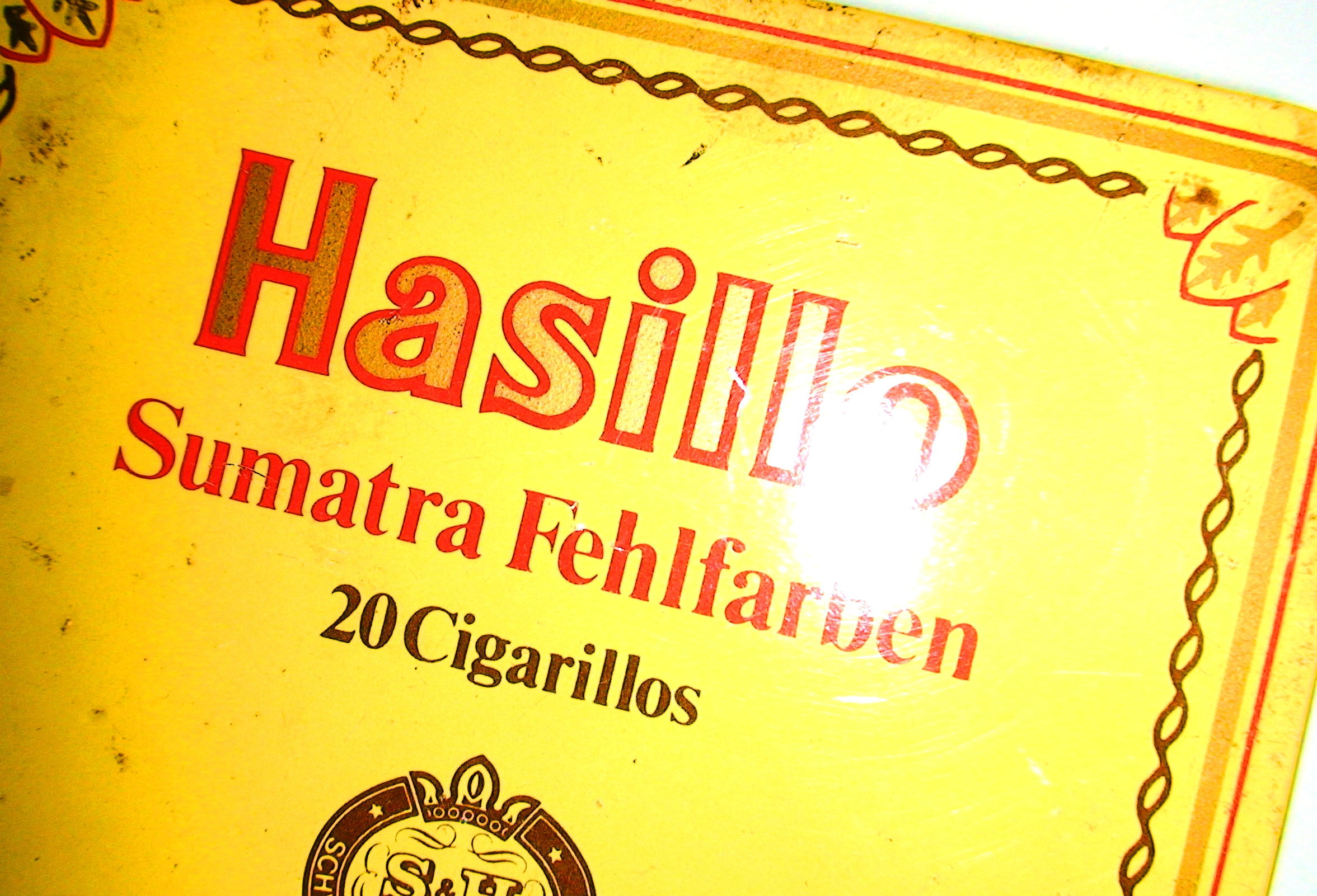 Photograph of a german Hasillo Cigarillo-Box.